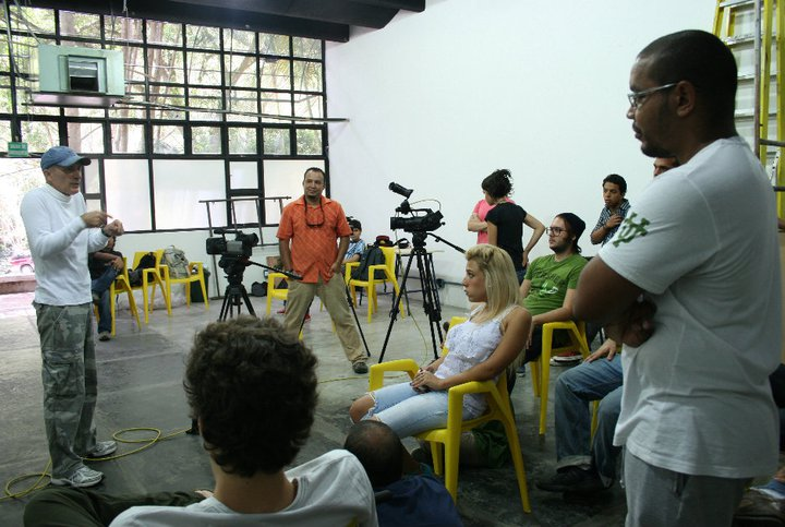 Instalaciones Escuela Nacional de Cine